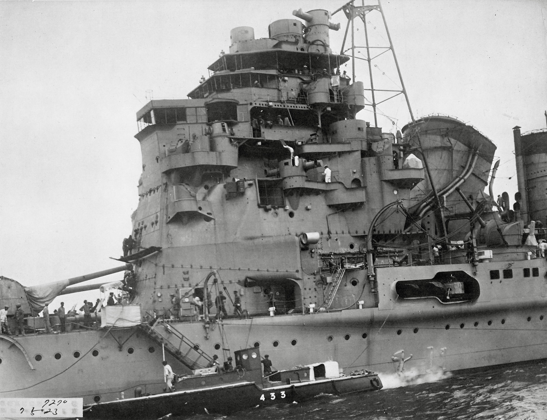 A central part japanese heavy cruiser Takao under construction.